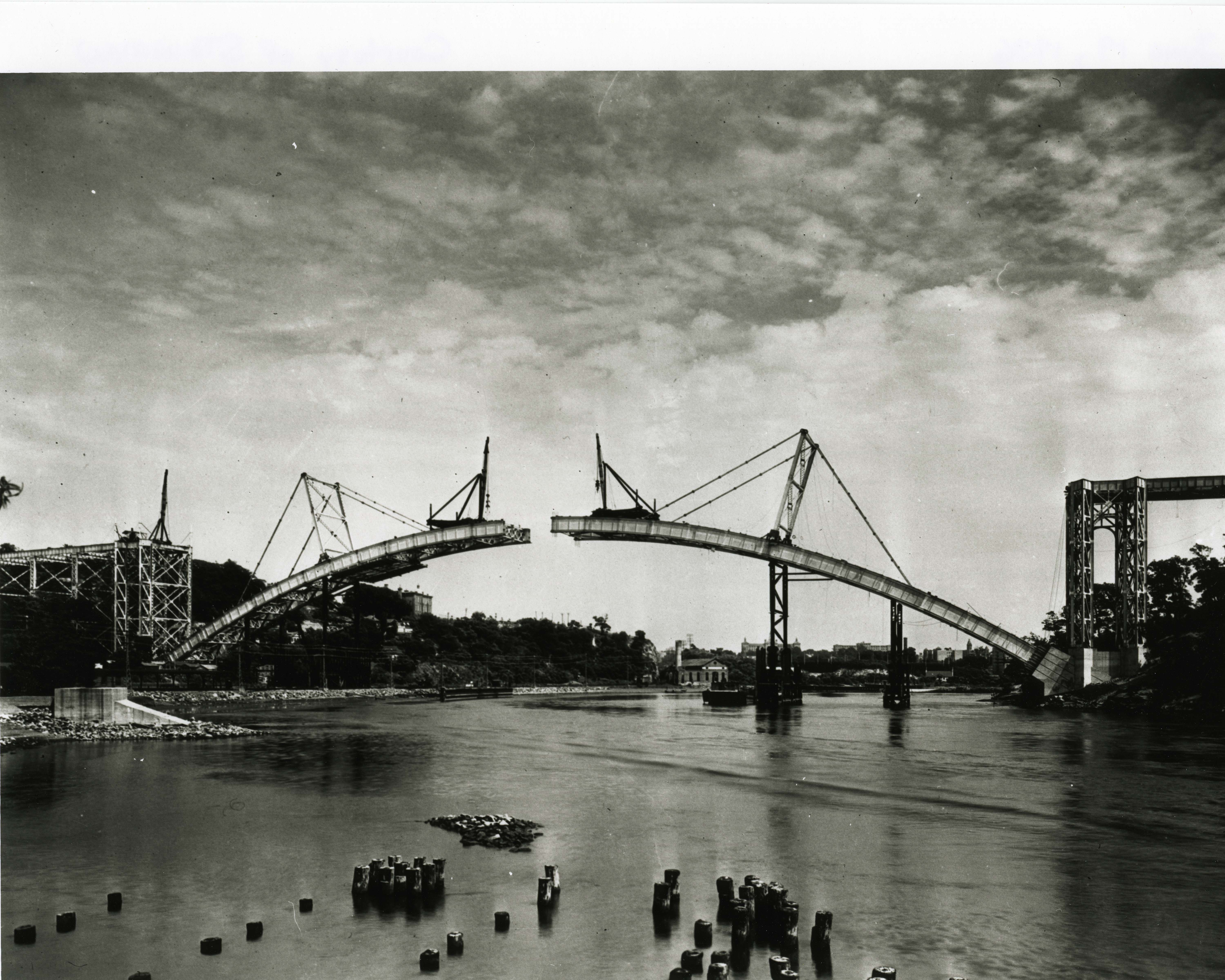 The Henry Hudson Bridge under construction. Photographer: Richard Averill Smith, June 19, 1936. Photo courtesy of MTA Bridges and Tunnels Special Archive.